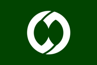 Flag of Inami Hyogo